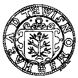 Sign of Visnum Hundred.